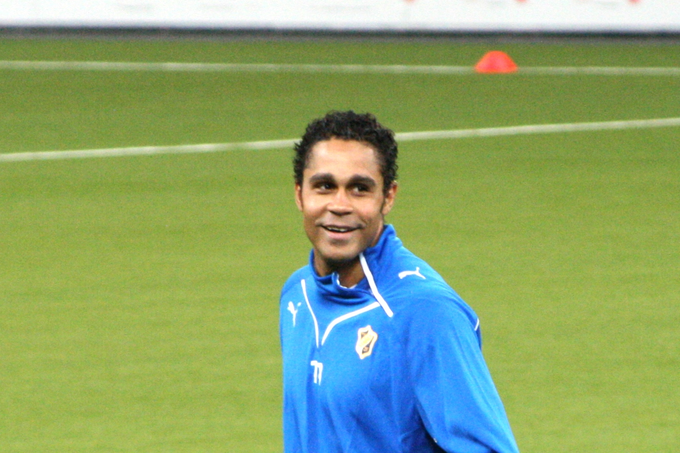 Swedish footballer Daniel Nannskog.